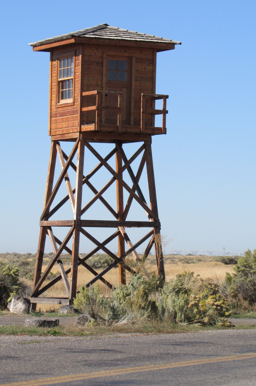 Symbols of Imprisonment, the guard tower at Minidoka National Historic Site, Hunt, Idaho.